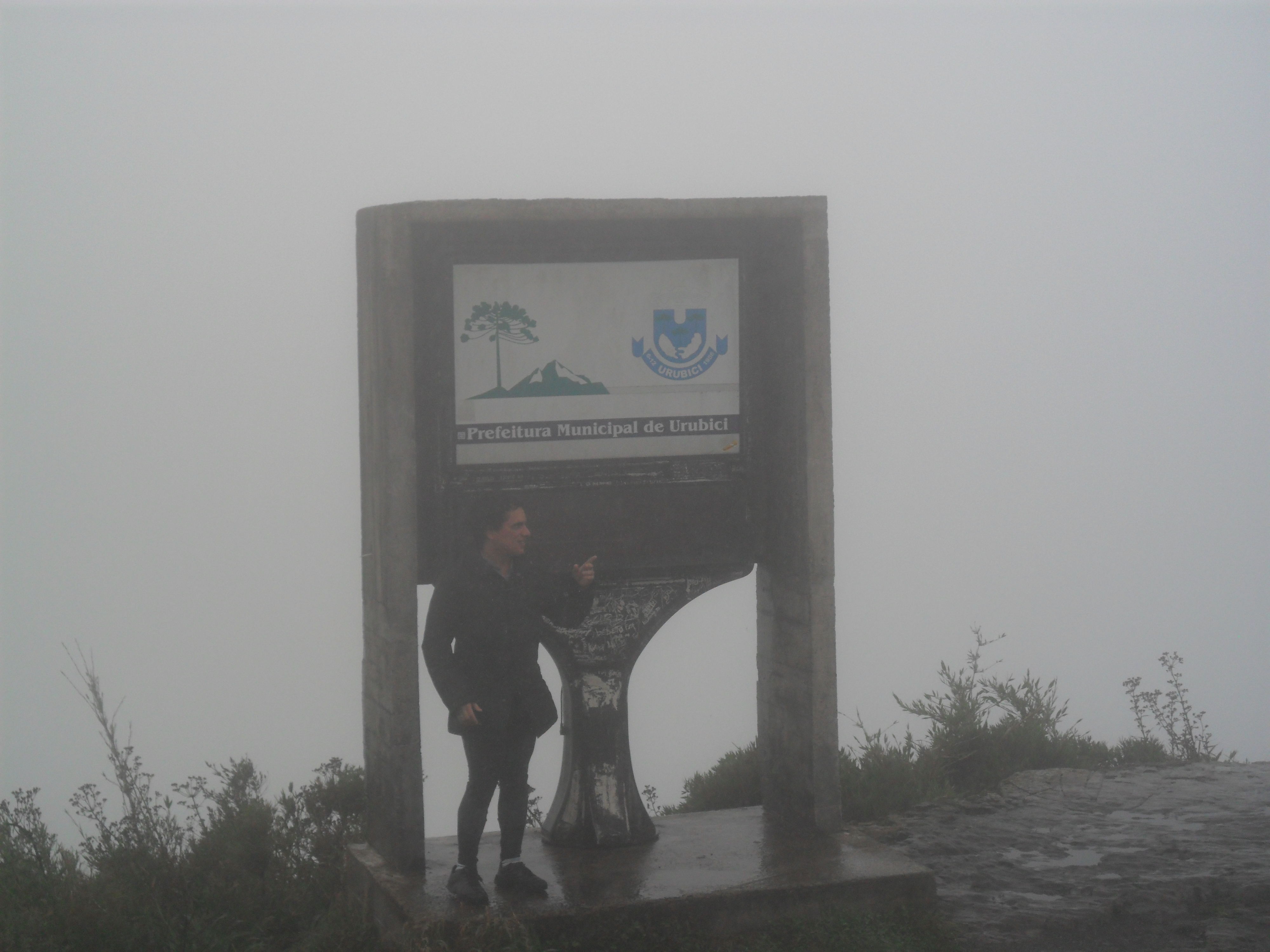 Urubici.Chuch2Mountain